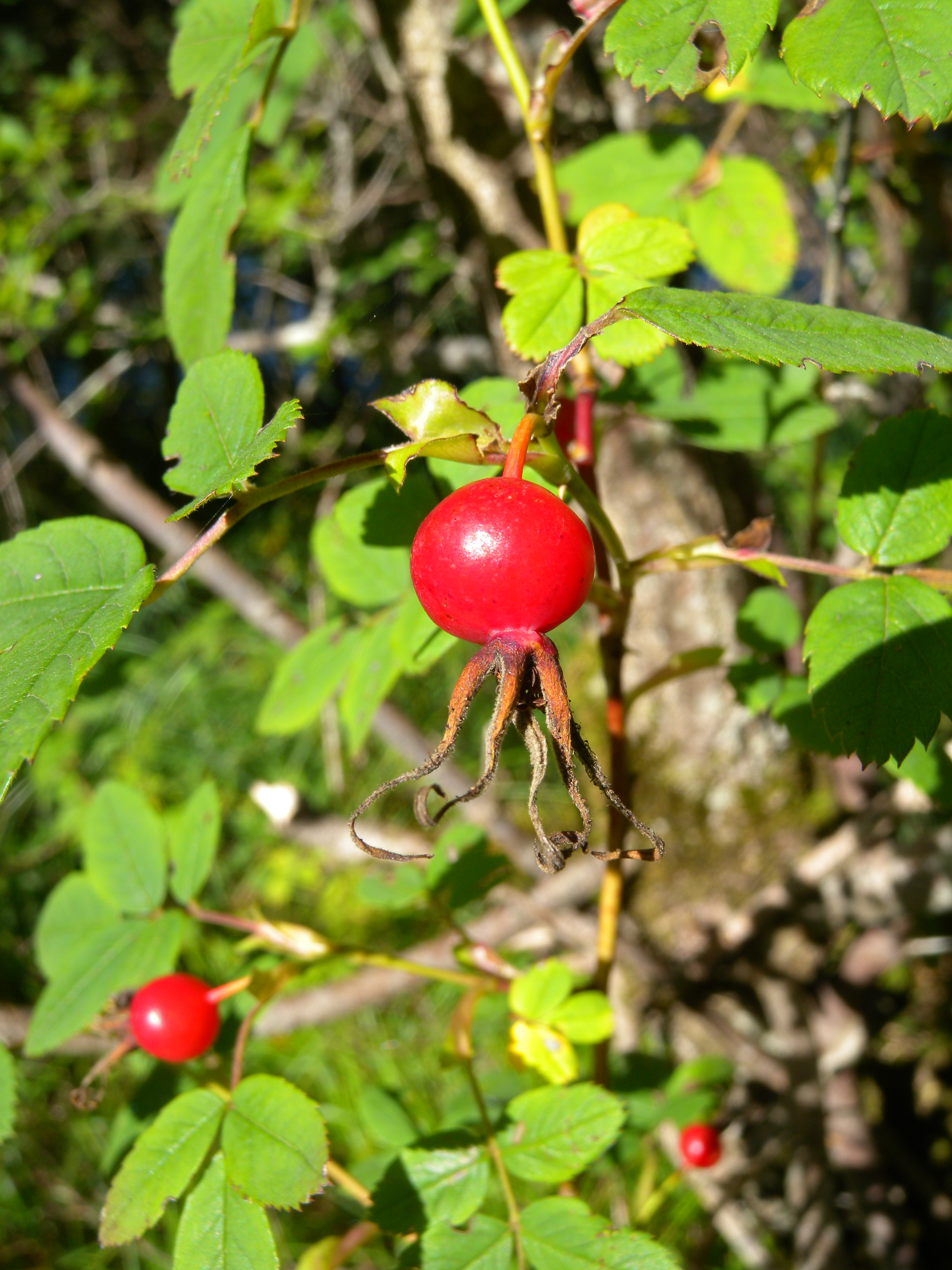 Fruit of Rosa majalis (Rosaceae); Elfenau, Bern, Switzerland